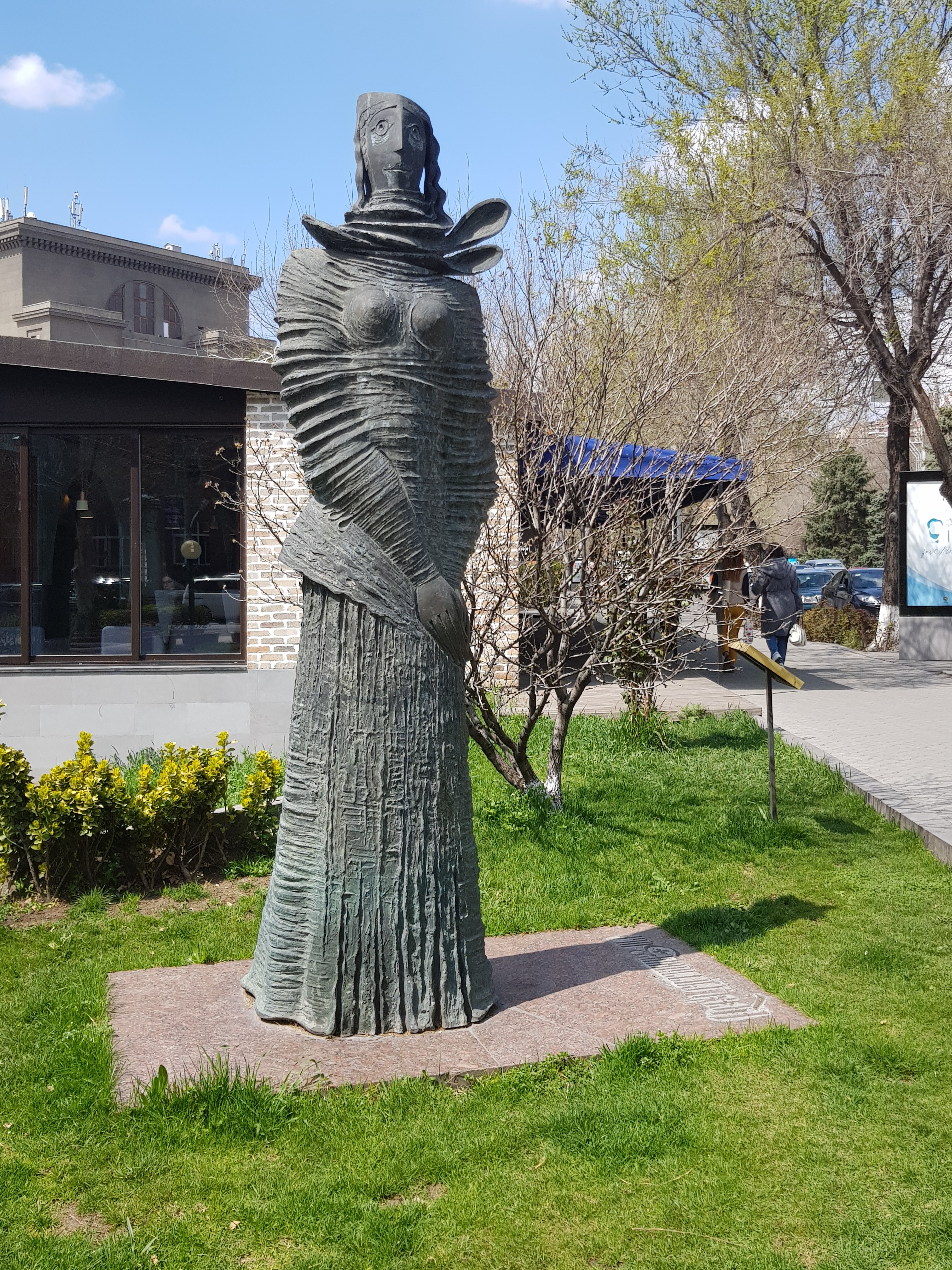 Arev Baghdasaryan's monument in Yerevan